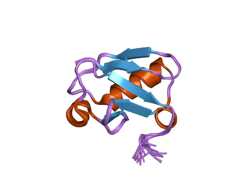 Cartoon representation of the molecular structure of protein registered with 2al3 code.